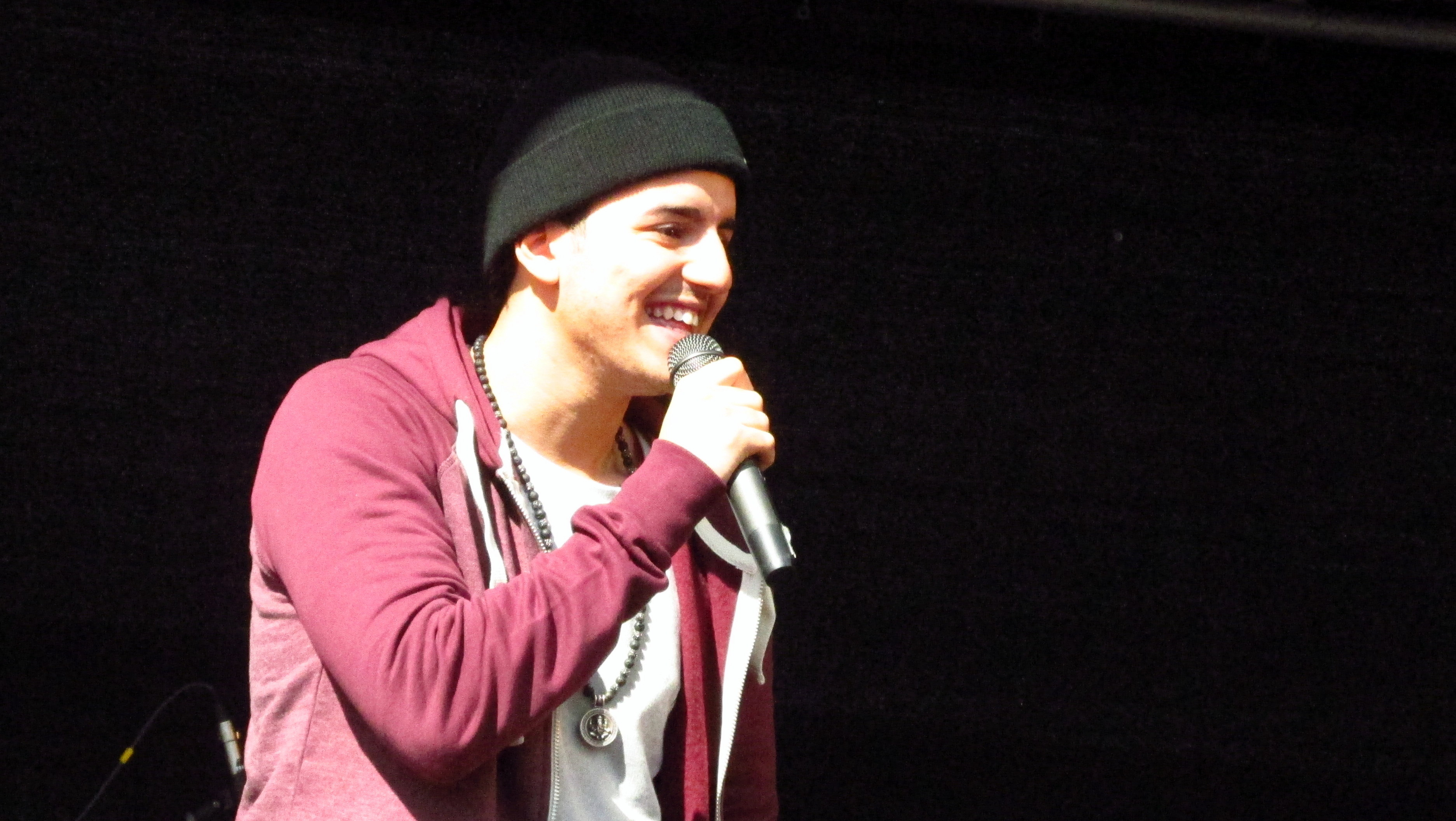 Basim - a Danish singer - performing in Hjørring, Denmark in April 2014